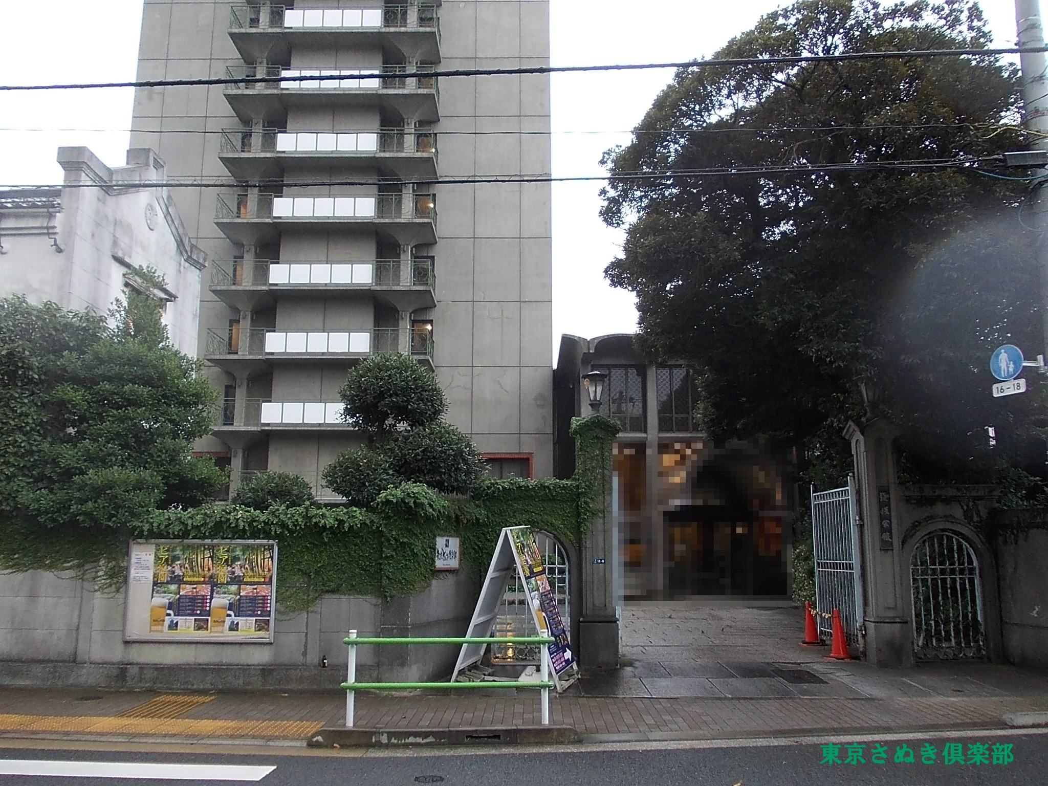 Tokyo